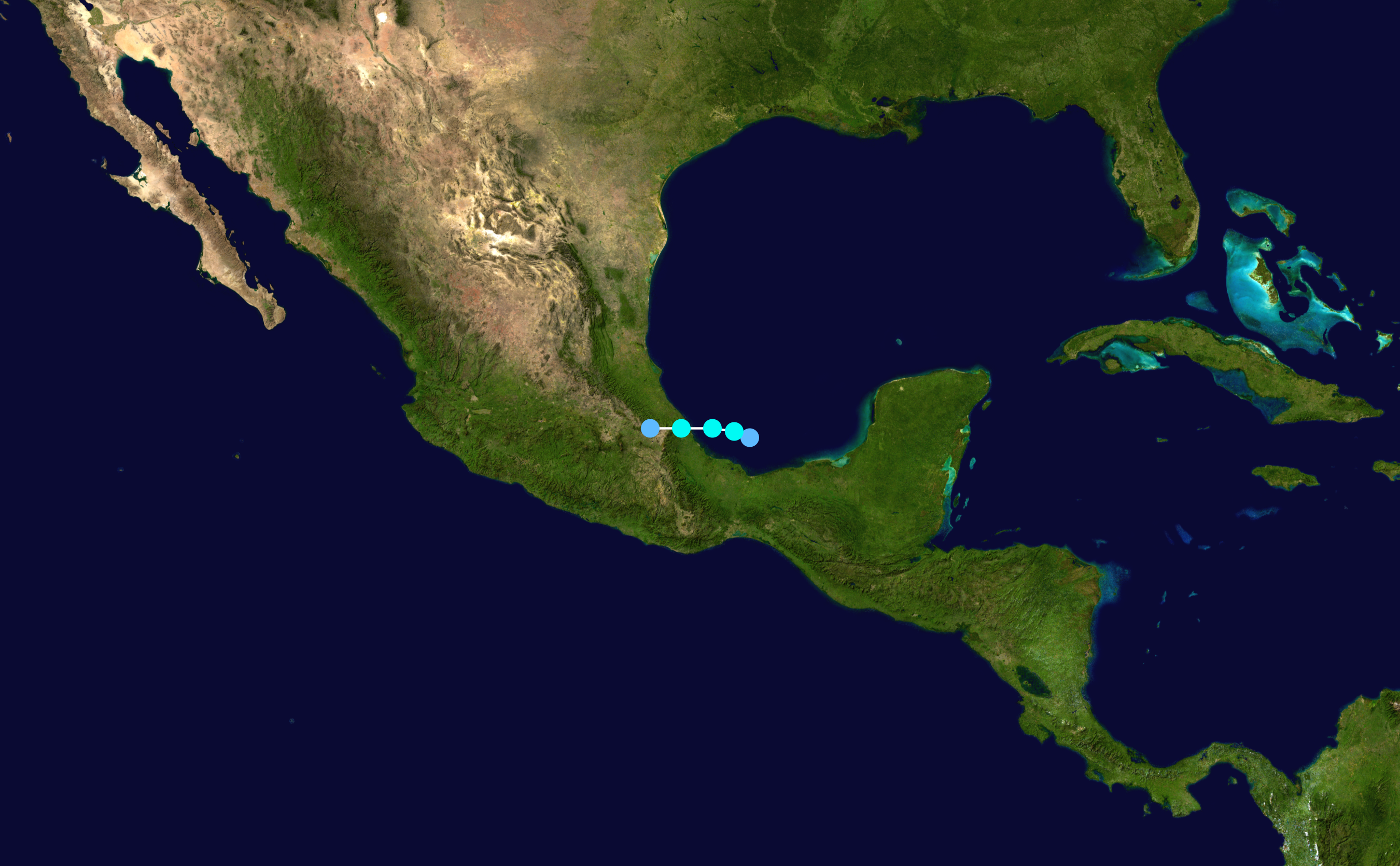 Track map of Tropical Storm Jose of the 2005 Atlantic hurricane season. The points show the location of the storm at 6-hour intervals. The colour represents the storm's maximum sustained wind speeds as classified in the Saffir–Simpson scale (see below), and the shape of the data points represent the nature of the storm, according to the legend below. Saffir–Simpson scale Tropical depression≤38 mph≤62 km/h Category 3111–129 mph178–208 km/h Tropical storm39–73 mph63–118 km/h Category 4130–156 mph209–251 km/h Category 174–95 mph119–153 km/h Category 5≥157 mph≥252 km/h Category 296–110 mph154–177 km/h Unknown Storm type Tropical cyclone Subtropical cyclone Extratropical cyclone / Remnant low / Tropical disturbance / Monsoon depression